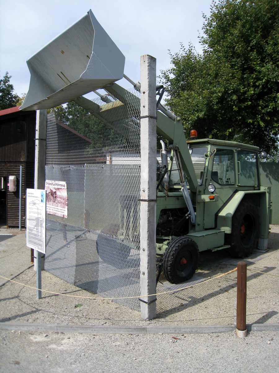 The original backhoe loader (rear machinery missing) that was used in the escape attempt by Heinz-Josef Große, killed on the inner German border on 29 March 1982. On display at the Grenzmuseum Schifflersgrund.